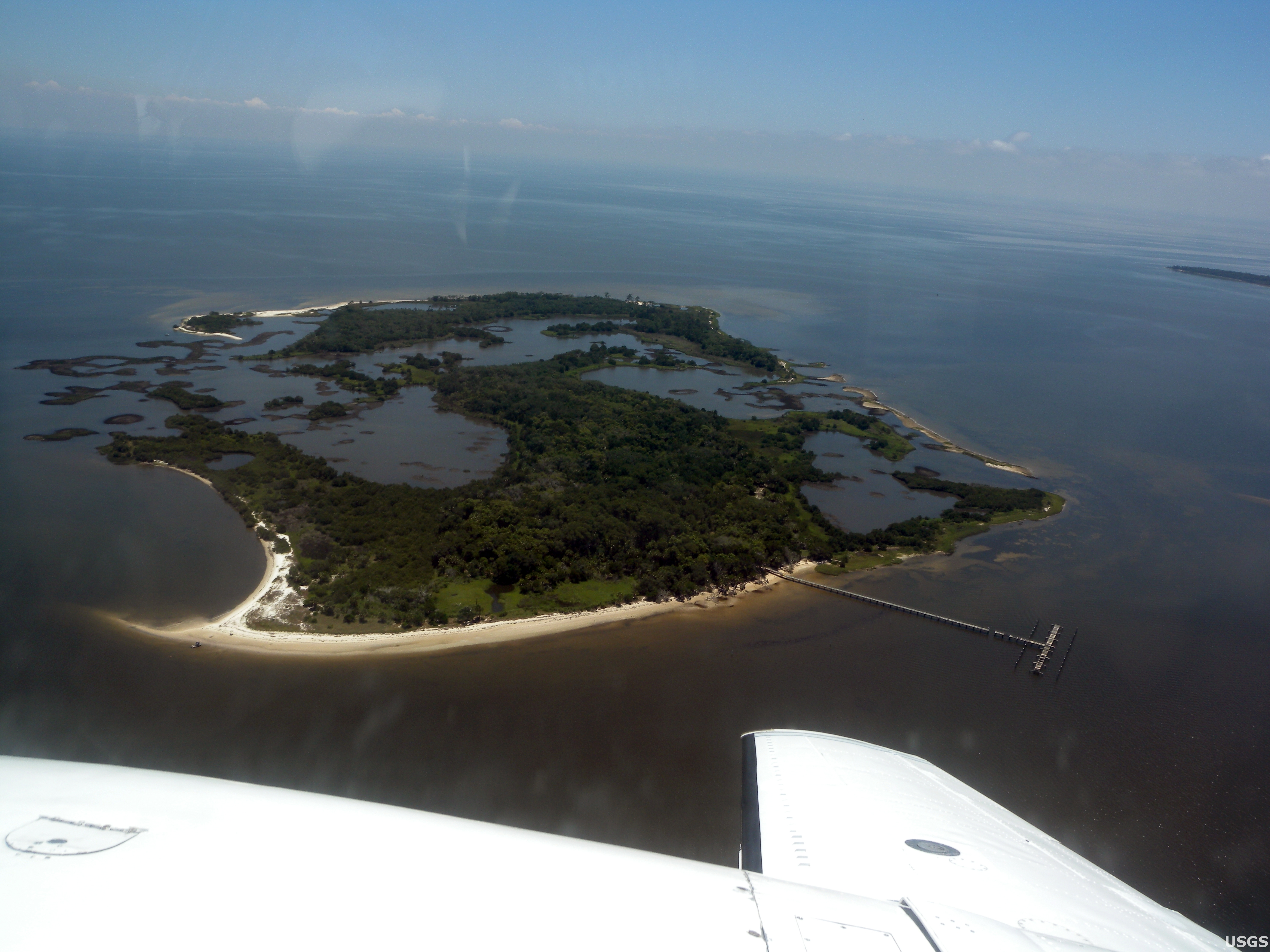 Atsena Otie Key is one of thirteen islands on Florida's Gulf Coast that make up Cedar Keys National Wildlife Refuge. Nearby waters support a multi-million dollar clam-farming industry. USGS documented pre-oil coastal conditions near the Refuge with baseline petrochemical measurements and aerial photography.